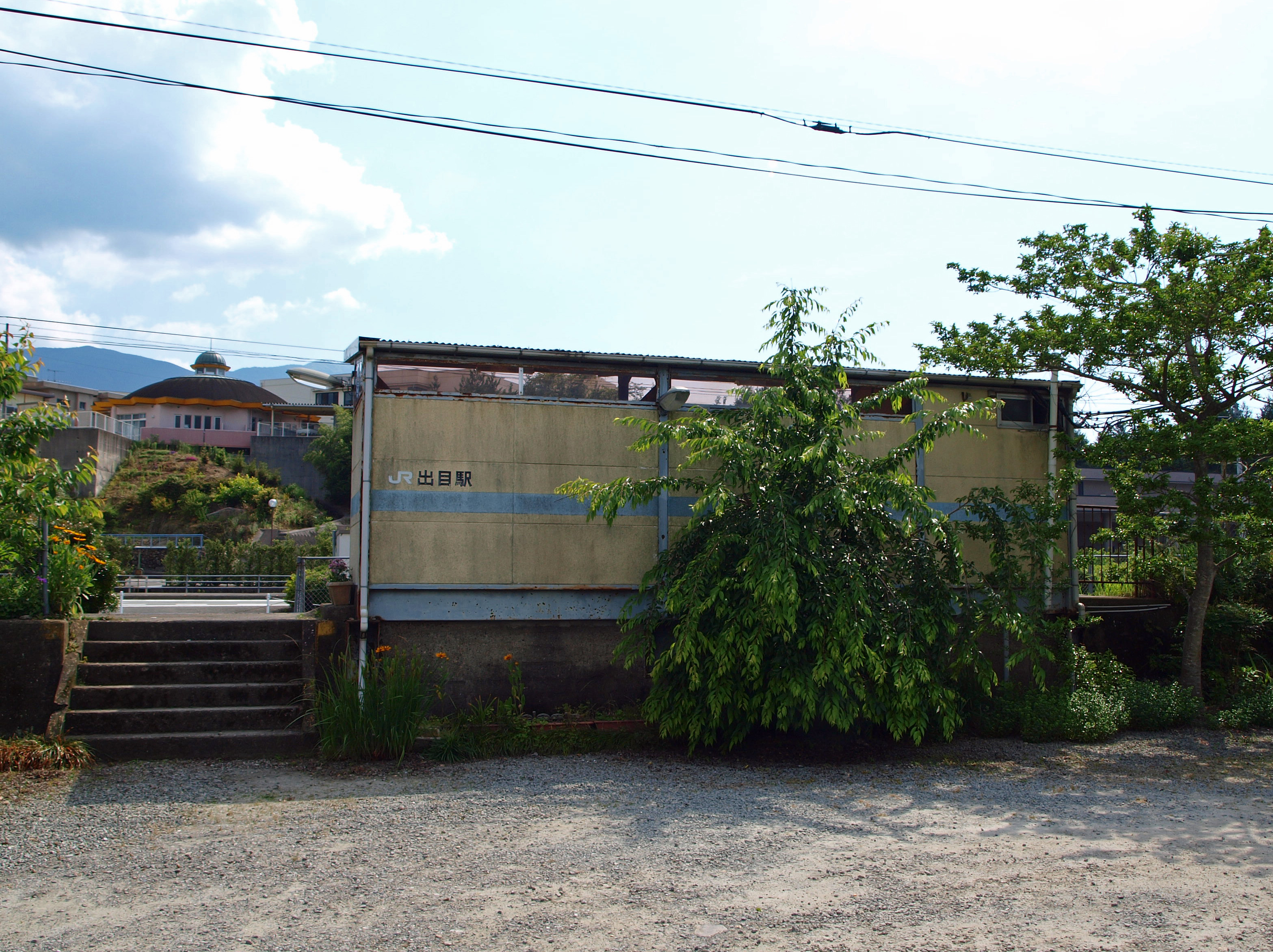 Izume station, Yodo-line, JR Shikoku, Japan